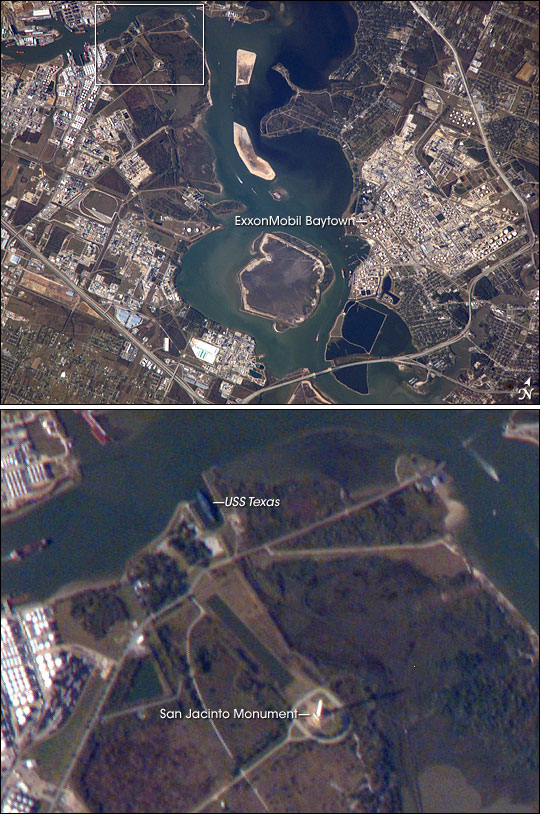 Astronaut photo of the Port of Houston, Houston, Texas, USA. Inset shows the USS Texas and the San Jacinto Monument.